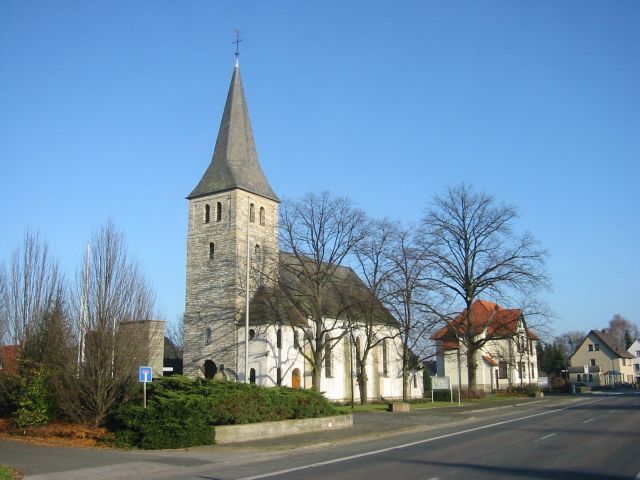 Salzkotten: Kath. Kirche St. Franziskus Xaverius in Verlar, Ansicht von Westen This is the photograph of an architectural monument. It is part of the list of cultural monuments of Salzkotten, no. 49